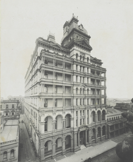 Format: Photograph Find more detailed information about this photographic collection: .au/item/itemDetailPaged.aspx?itemID=902396 From the collection of the State Library of New South Wales